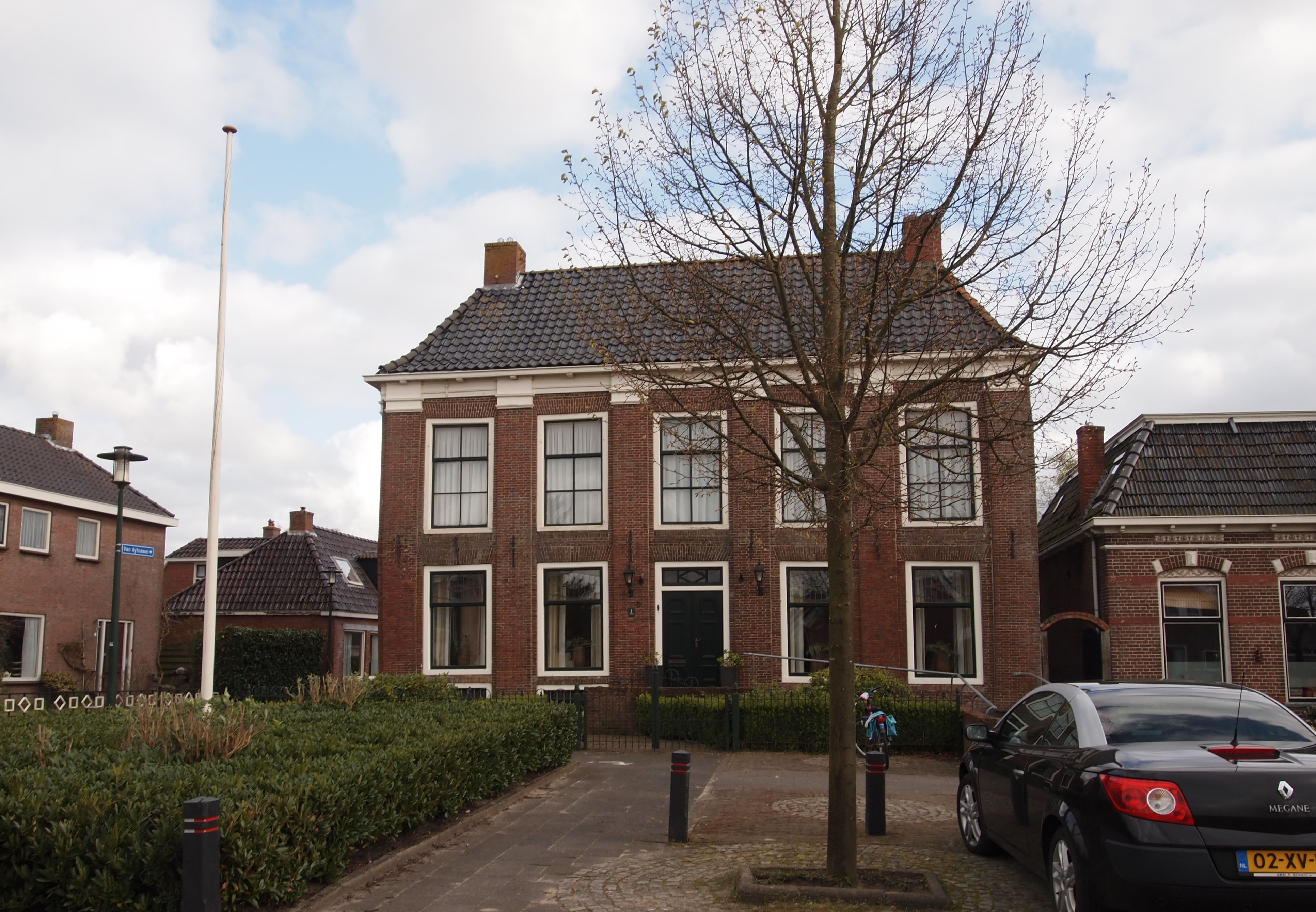 Rechthuis annex herberg. Rinsumageest